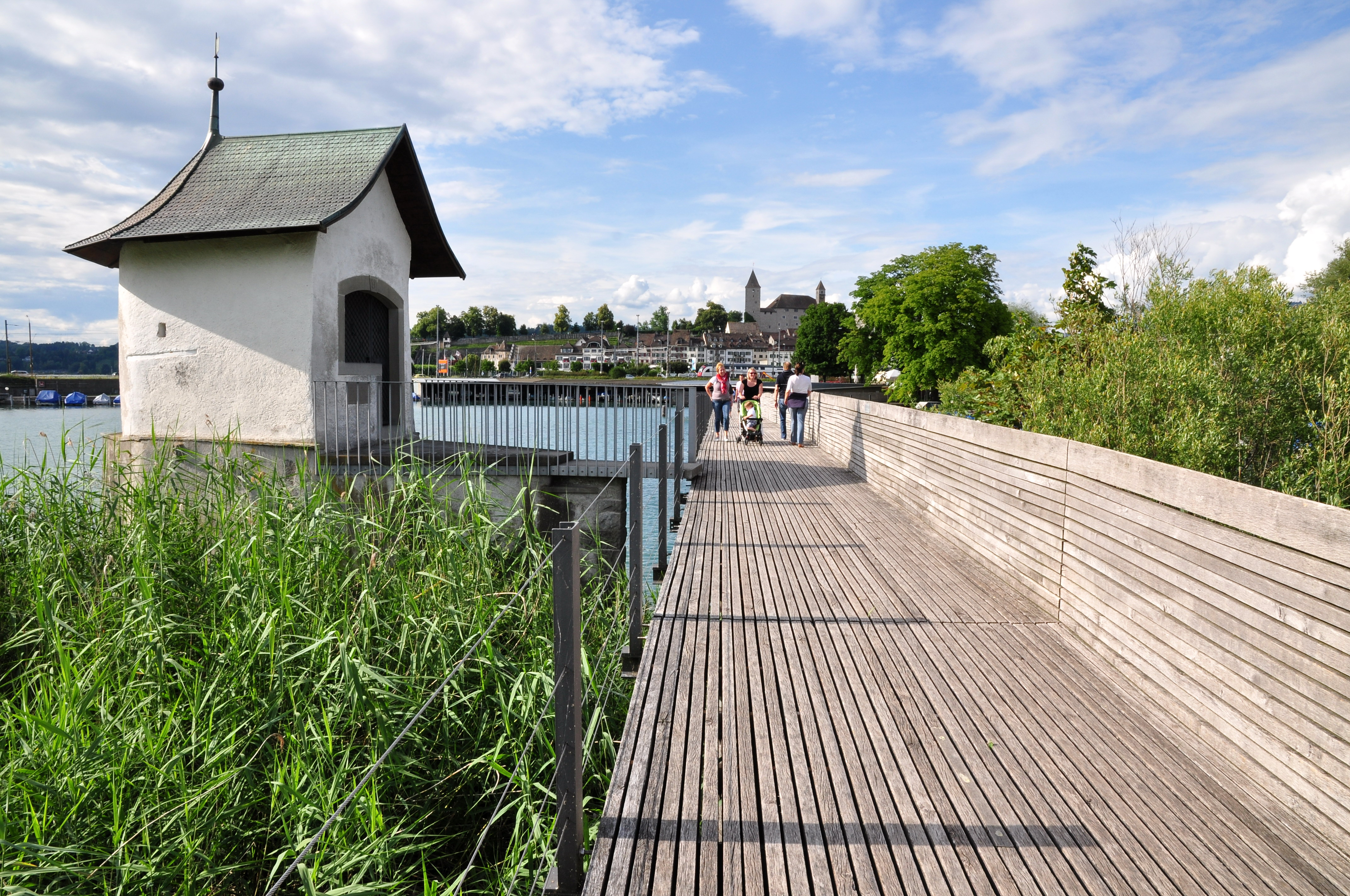 Rapperswil (Switzerland) as seen from the wooden bridge between Rapperswil and Hurden, crossing Obersee (upper Lake Zurich), «Heilig Hüsli» chapel to the left, Altstadt, Schloss and Stadtpfarrkirche (St. John's Church) in the background.